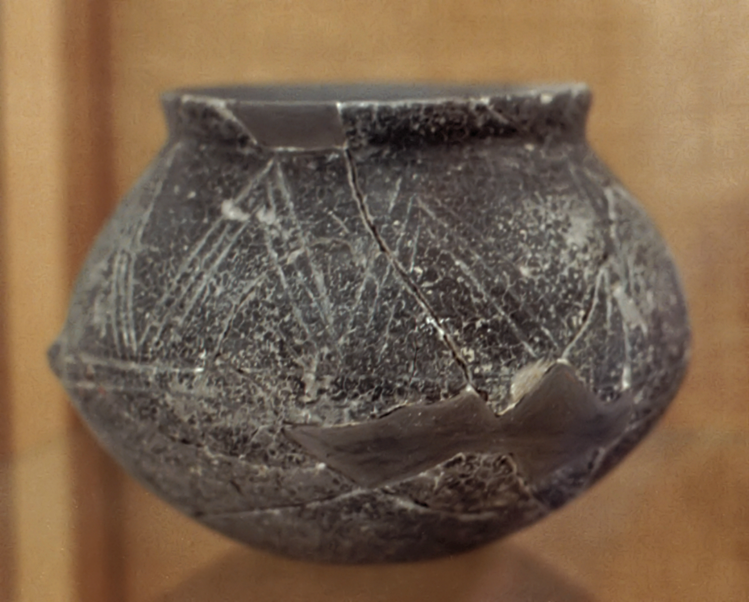 Stone vessel from the Early Cycladic seat or shrine on top Kynthos decorated with grooves, Early Bronze Age, EC II, around 2400 BC. Archaeological museum at Delos, Pyxis 418.